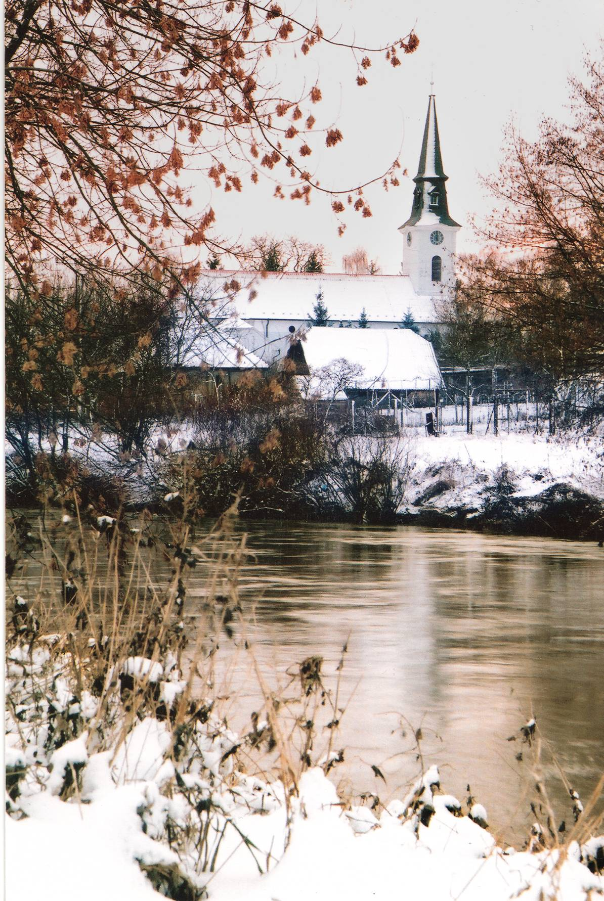 The Church of St Elizabeth is the Roman Catholic church in Preselany / Slovak Republic - St Elizabeth ( It is reasonable to assume that there was a parish church already in Preselany around the year 1250. It was created as a Catholic one sometimes in the year 1322. - Preselany ( The church was built of sandstone in Roman-Gothic style. In 1736, the church was rebuilt in the baroque style with late-baroque organ. In 1736, the church was rebuilt in the baroque and was rebuilt again in the Classicist style in 1887. Windows have been reconstructed in neo-Romanesque style in 1953.